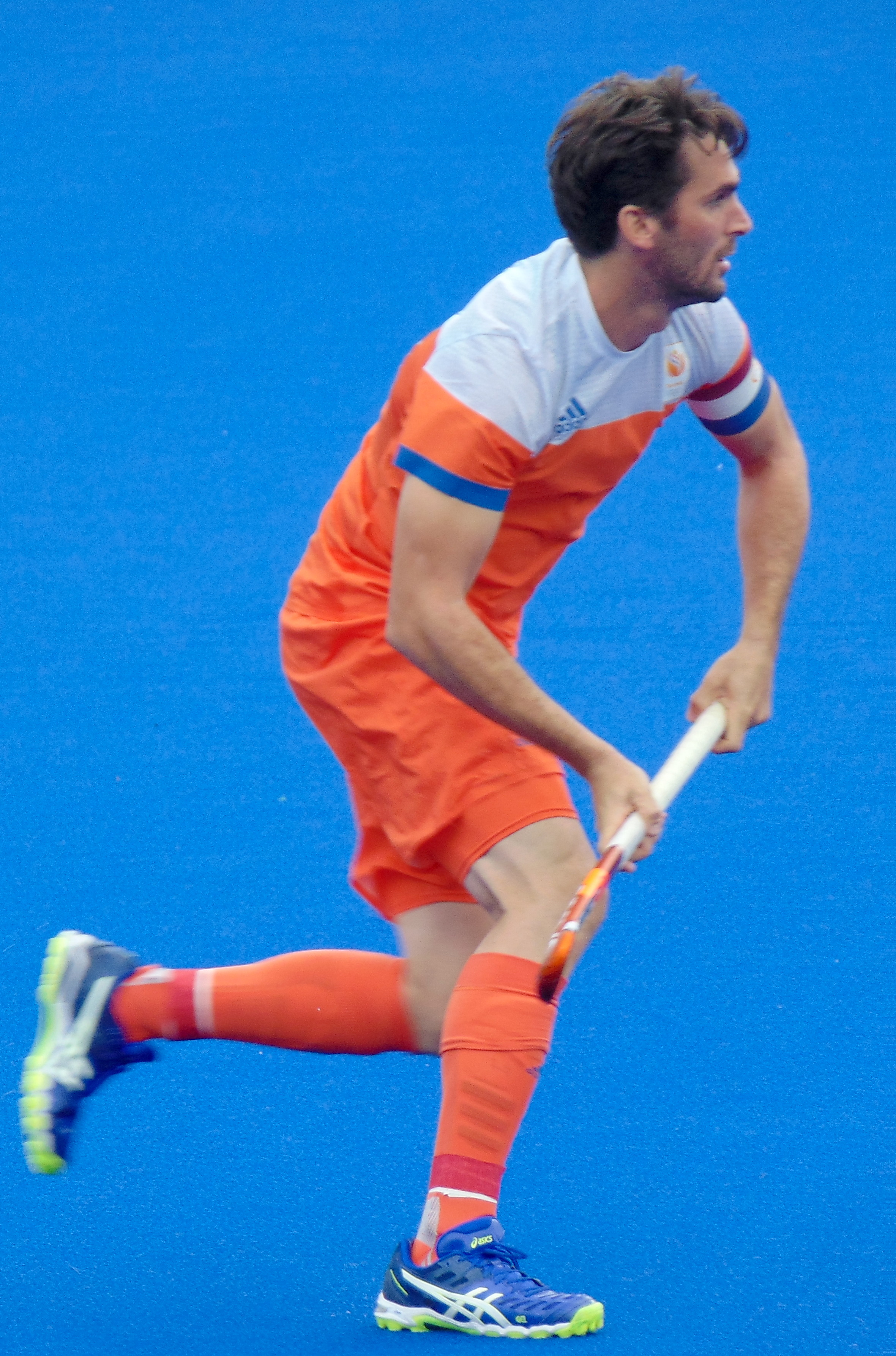 Rio 2016 - Men's and Women's Field hockey (HO025)